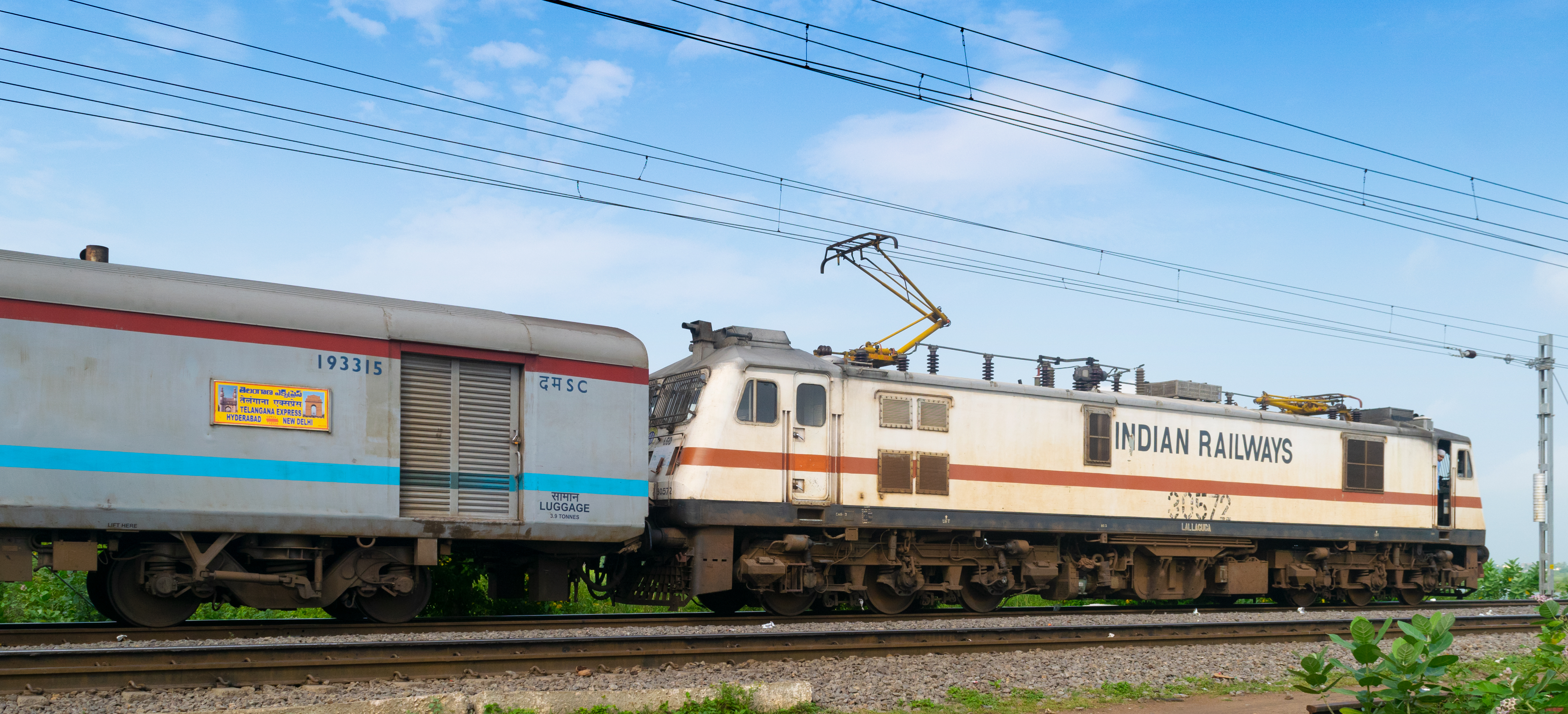 Telangana express leaving Kazipet Junction